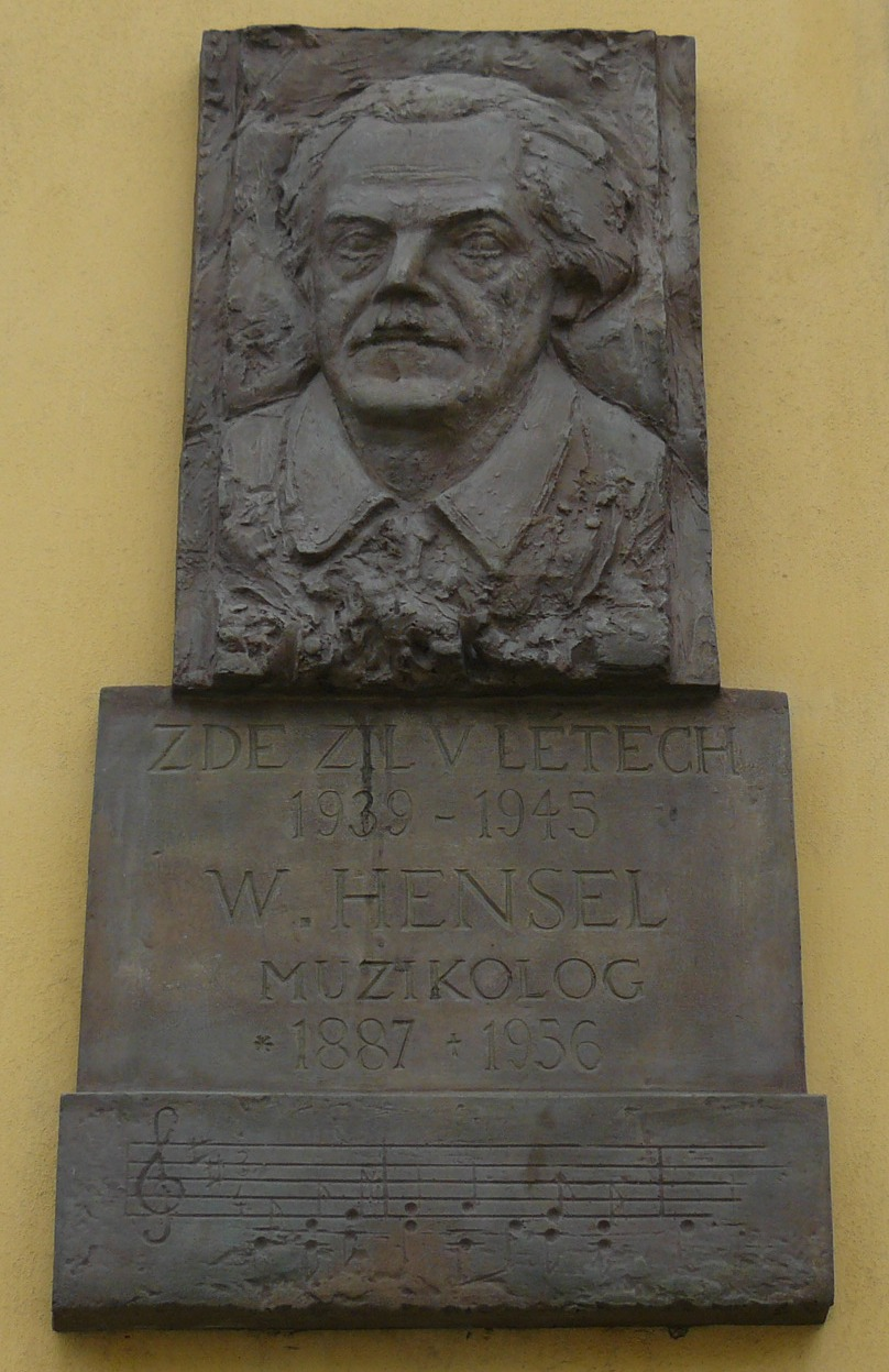 Walther Hensel plaque in Teplice, CZ.